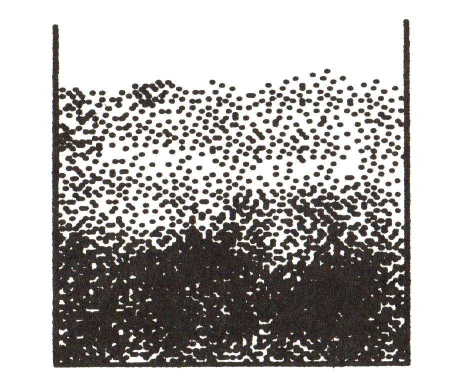 "A sketch of Perrin's results of a microscopic examination of the equilibrium or barometric distribution of granules of gamboge, which is a sticky substance used as a bright yellow water color. The granules are approximately uniform in diameter (0.6 microns). The relative change in density observed in 10 microns of suspension is equivalent to that occurring in 6 km of air or a magnification of 600 000 000."